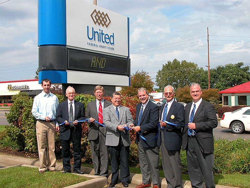 UFCU merges into FRFCU and together they adopt the United Federal Credit Union name